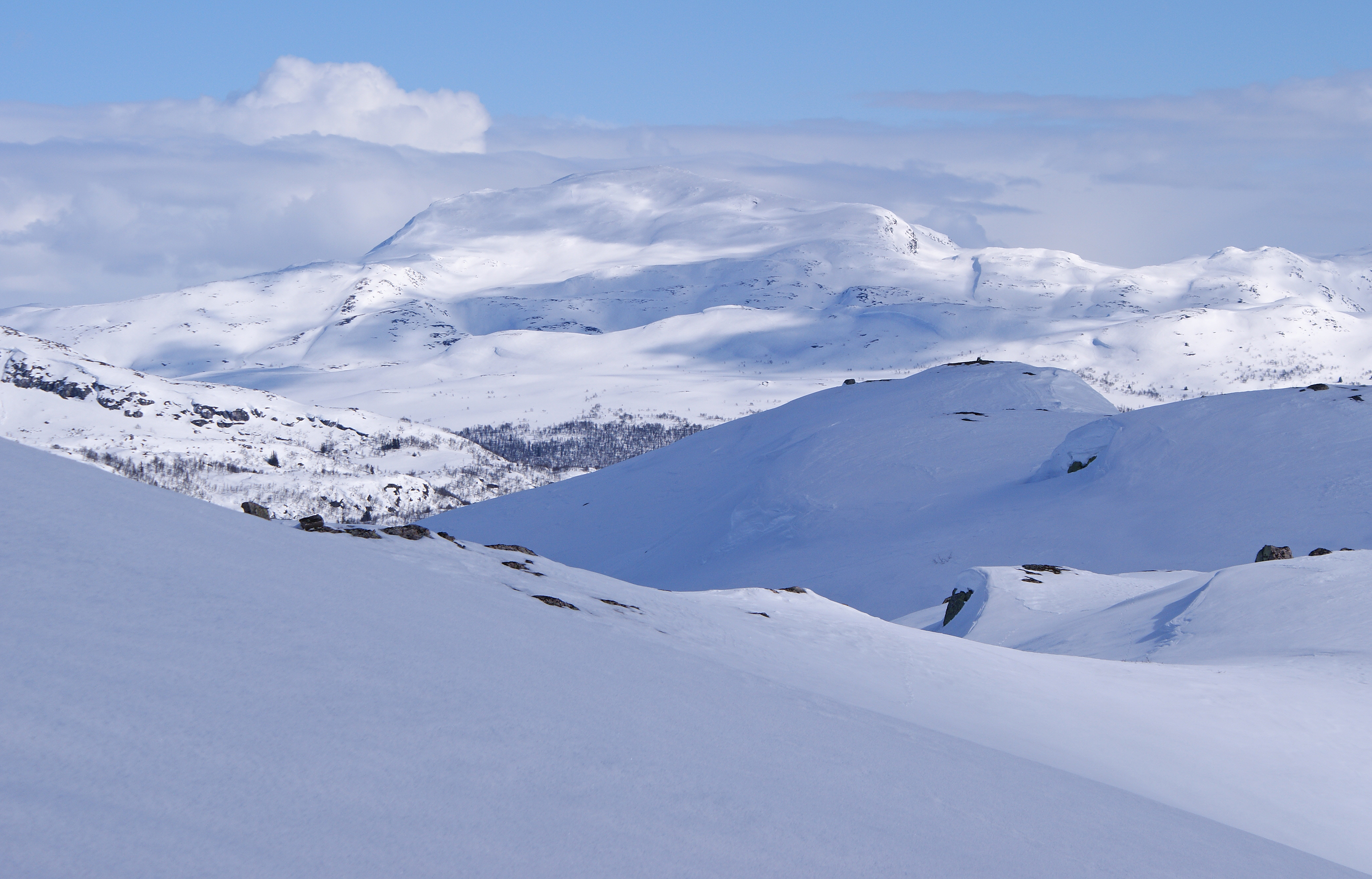 I'm back from my Easter holidays in Telemark.